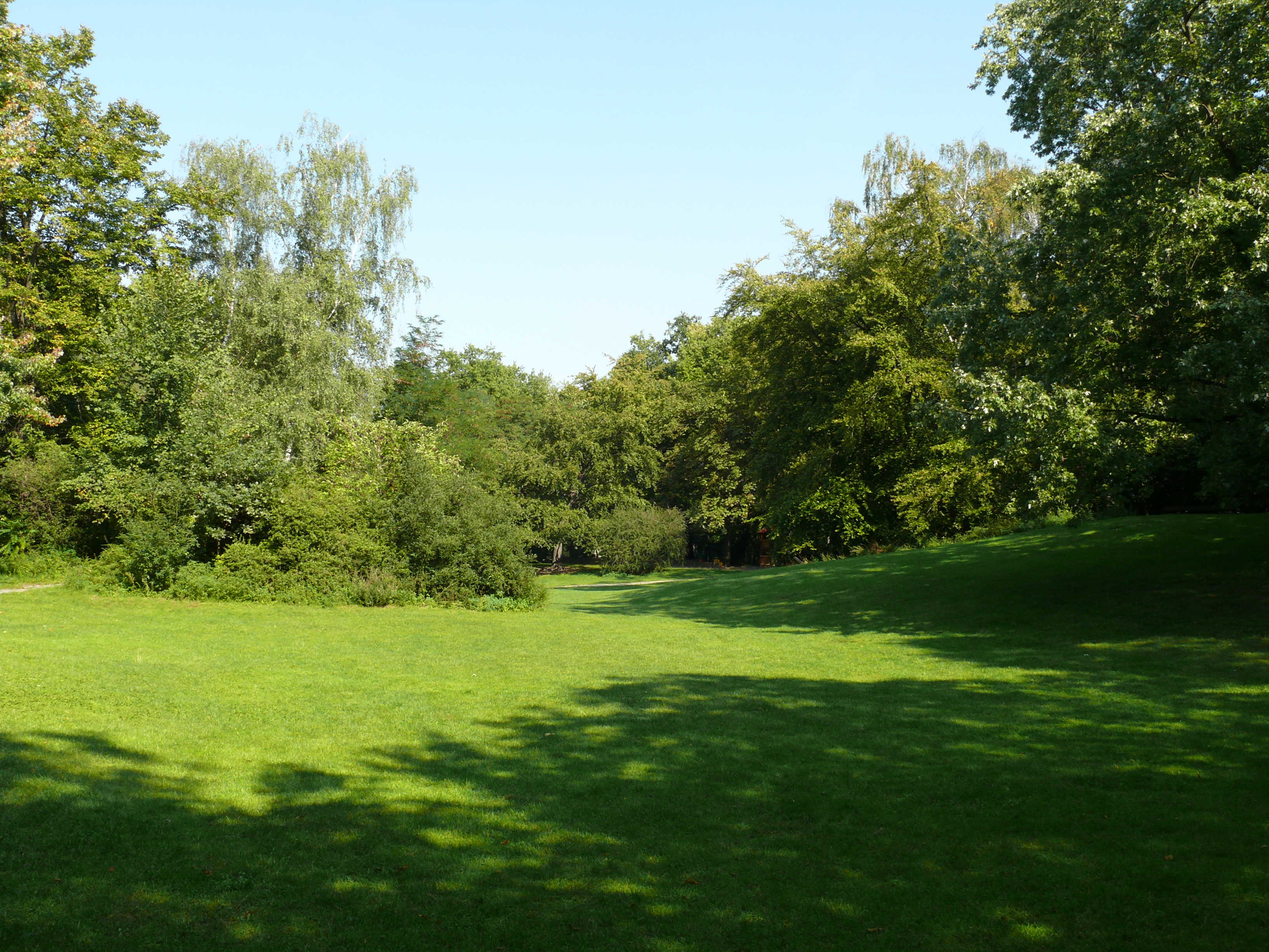 Berlin-Moabit Carl-von-Ossietzky-Park